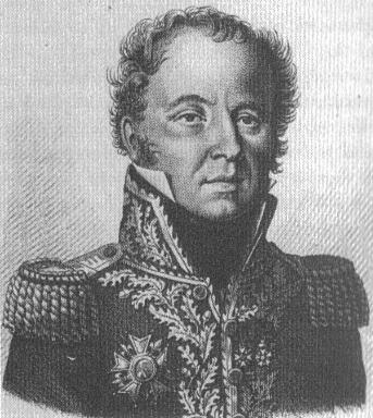 Depicted person: Louis Emmanuel Rey – French general